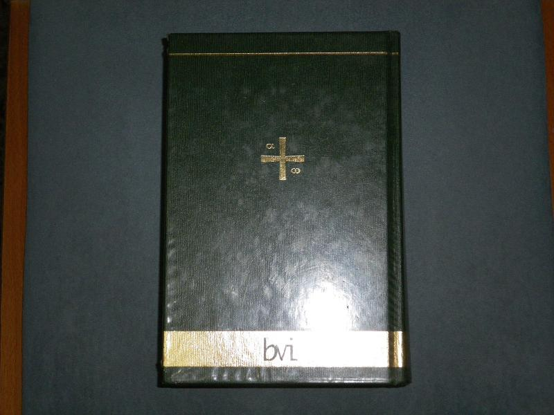 Interconfessional Valencian Bible.